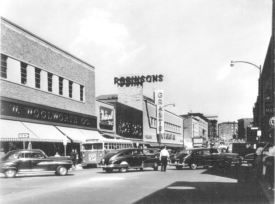 Waterbury, Connecticut: East Main Street in 1954. (Library of Congress, LC-USZ62-128396)